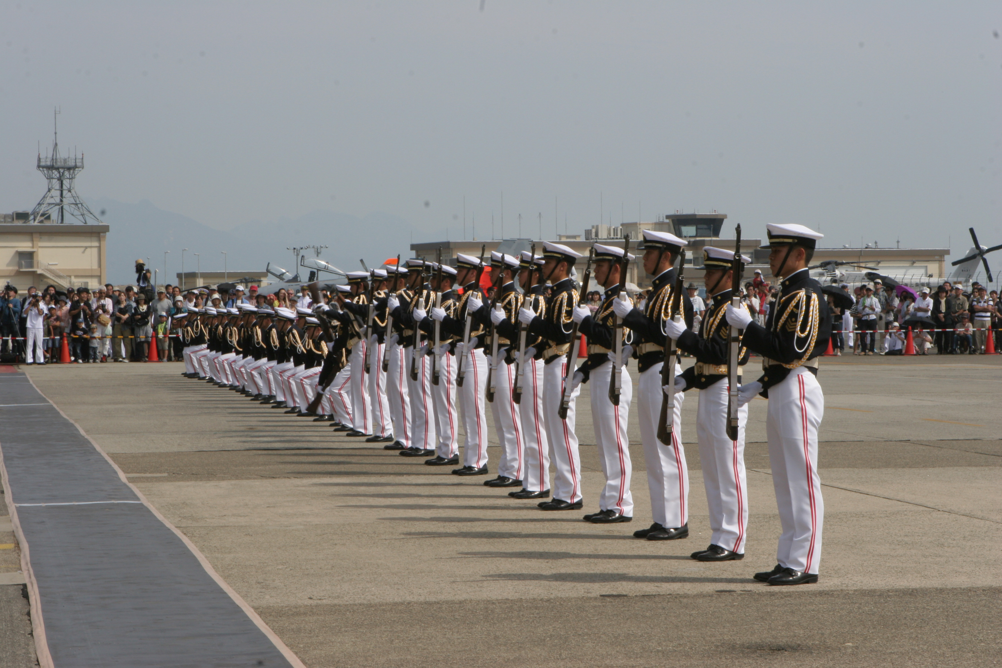 The Japan Maritime Self-Defense Force drill team performs at the JMSDF Iwakuni base festival here Sunday. The JMSDF drill team is composed of cadets in flight training. Other performances included Taiko drums, White Snake Power Rangers and the Japanese band Salbia.